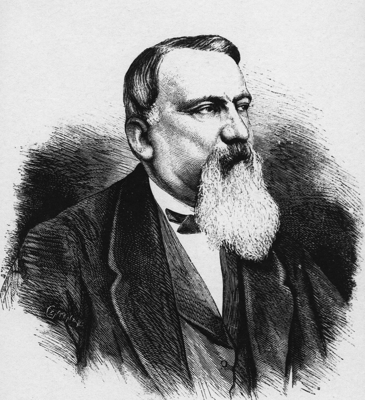 Portrait of Alberto Mazzucato. Illustration published in L'Illustrazione Italiana, Year 5, no 2, 13 January 1878, p. 24 and L'Illustraziune popolare, vol. XV, no 15, 10 February 1878, p. 225